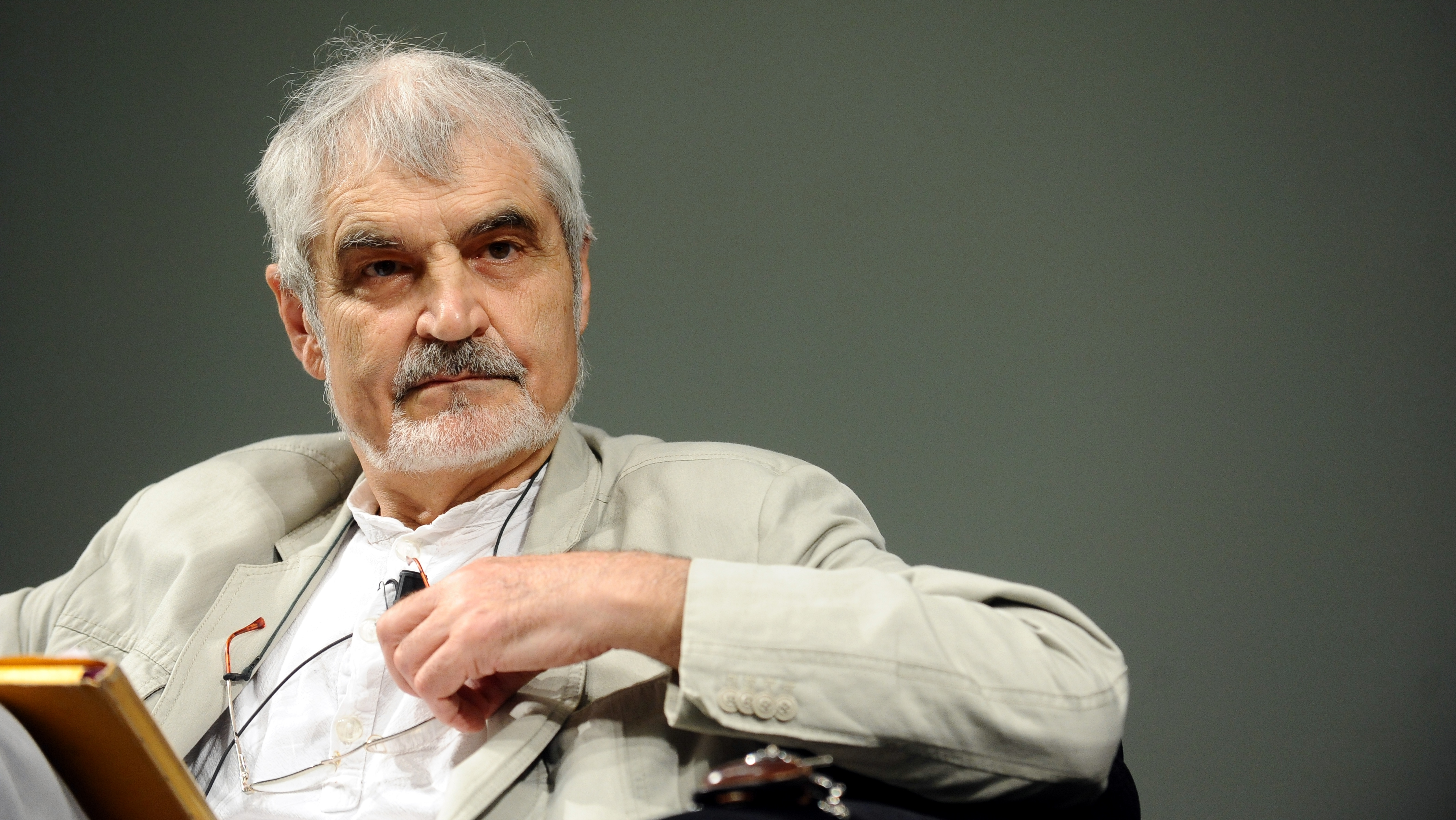 Serge Latouche at the Festival of Economics 2012, Trento, Italy.